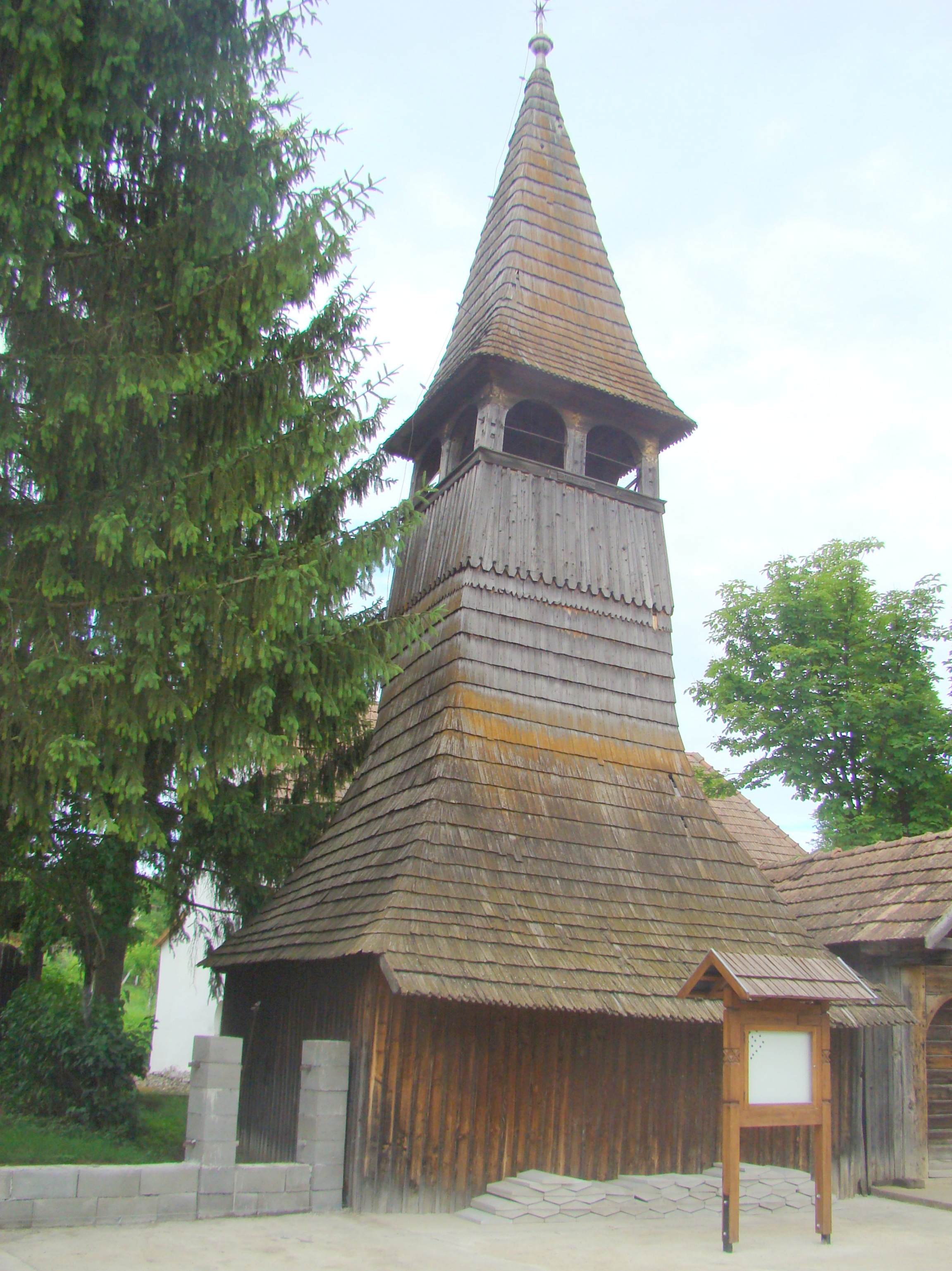 Bell tower of the reformed church in Culpiu, Mureş county, Romania